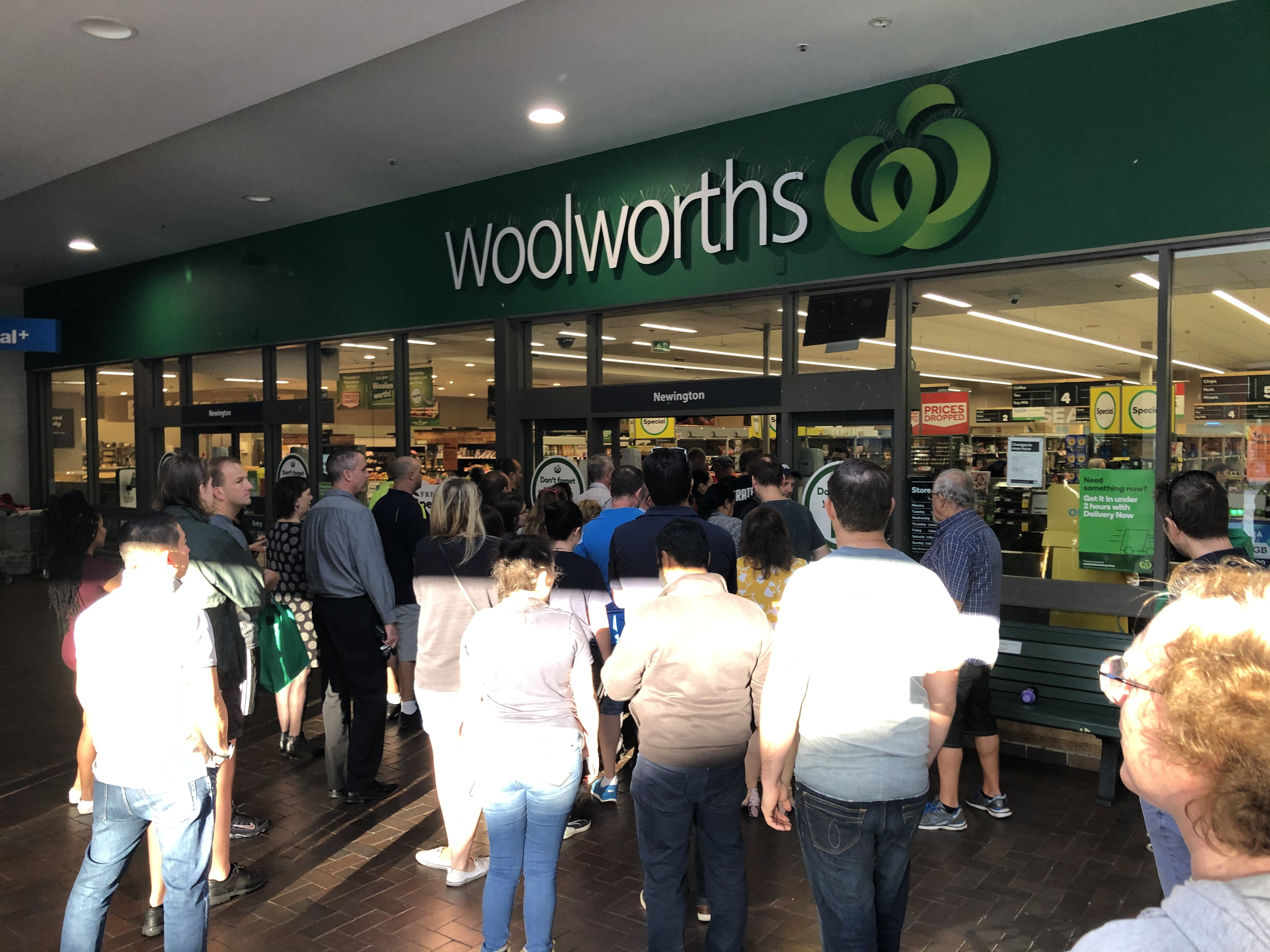 I was there to pick up a couple of things we had run out of... you know, normal shopping behaviour.